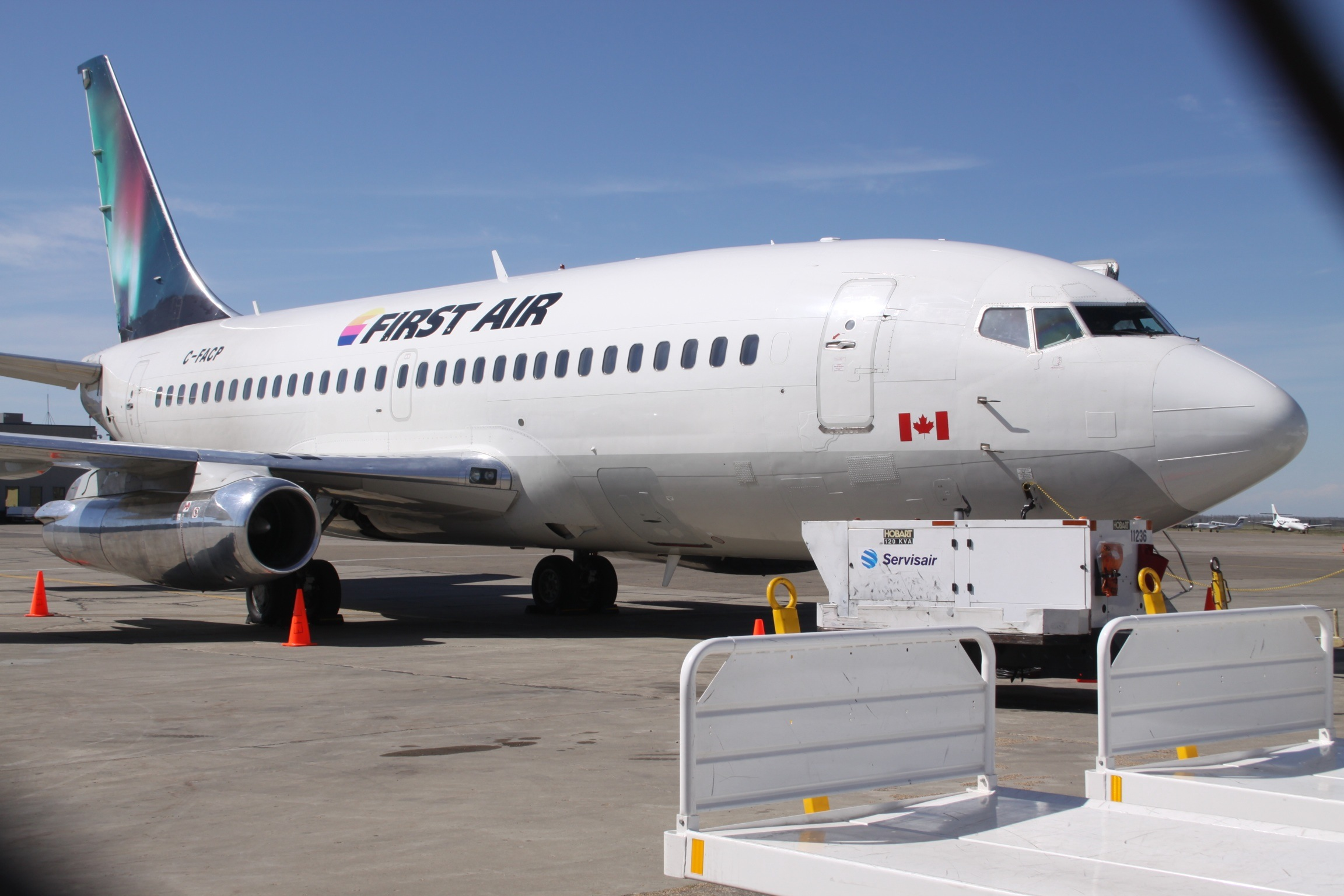 At Edmonton International Airport